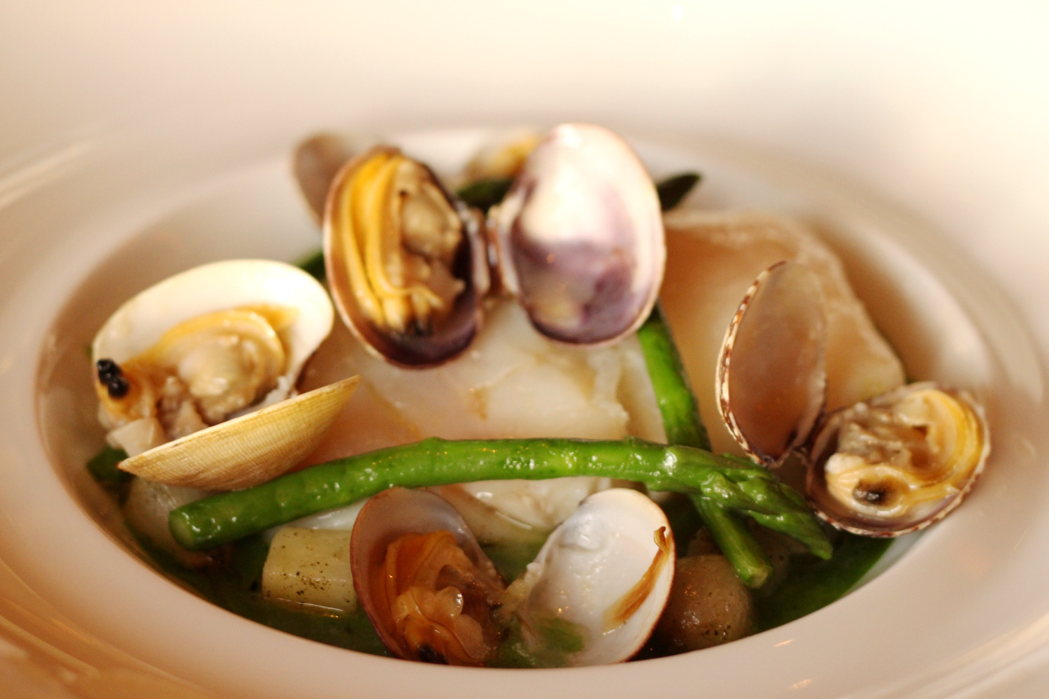 Halibut at Michael Mina in Las Vegas